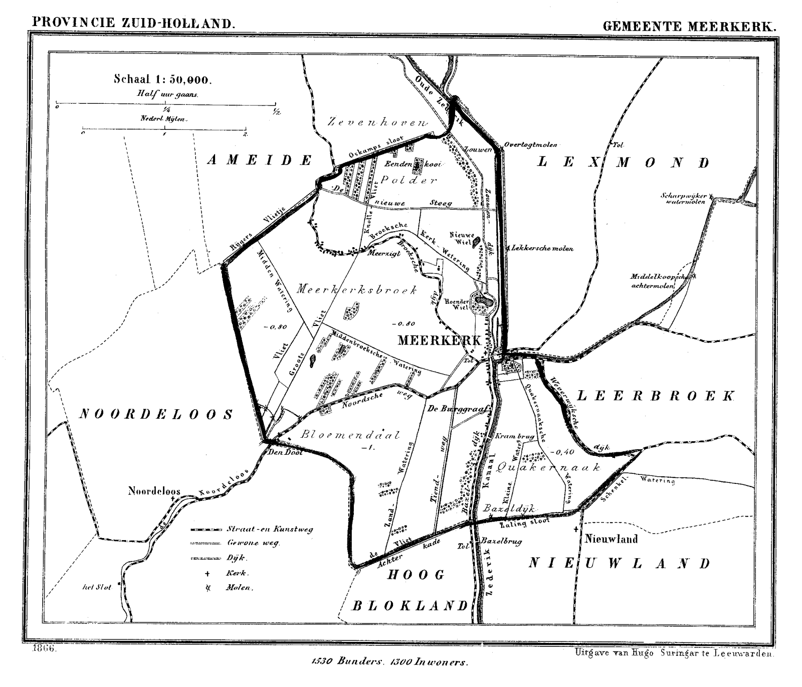 Historic map of Meerkerk (now part of municipality Zederik), South Holland, the Netherlands